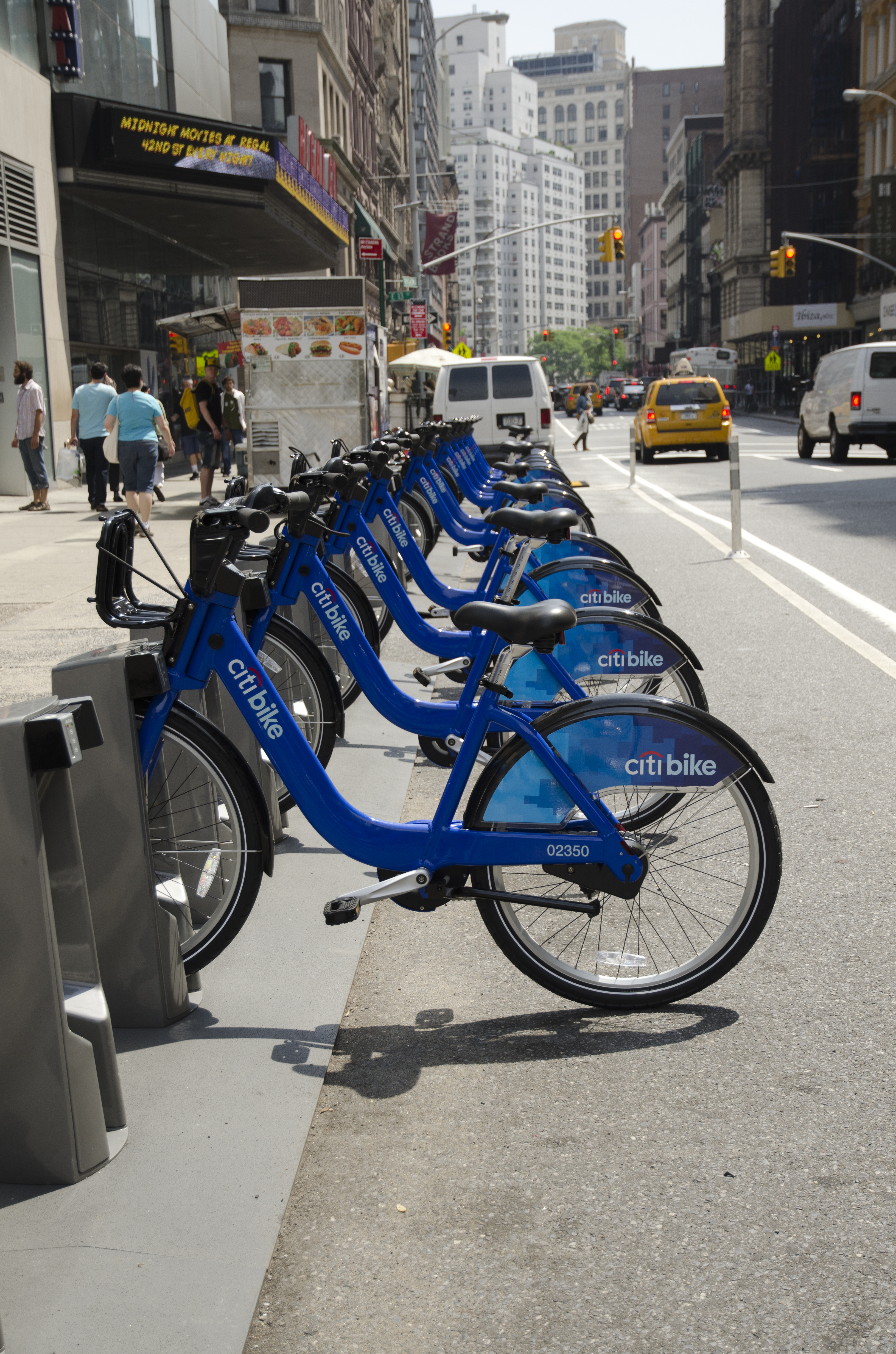 Citi Bike station in New York City